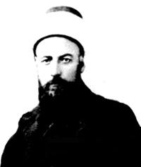 A photograph of Haji-Mirza Hassan Roshdie.